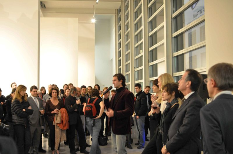 Contemporary Art Museum Prague